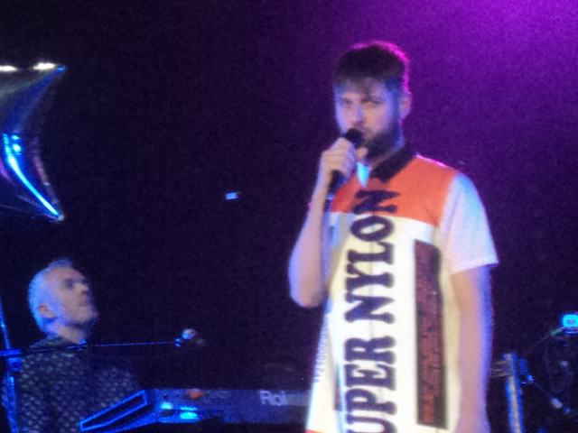 Picture taken by Werldwayd during the live performance of Pierre Lapointe during Les FrancoFolies de Montréal on 18 June 2014